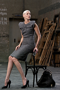 Portrait of super-model Nadja Auermann, photographed by foto di matti, photographer based in Berlin and Barcelona. The photo was taken in August 2008 in the Deutsche Oper backstage in Berlin. High-resolution versions of this and more photos are available. Please contact me by mail